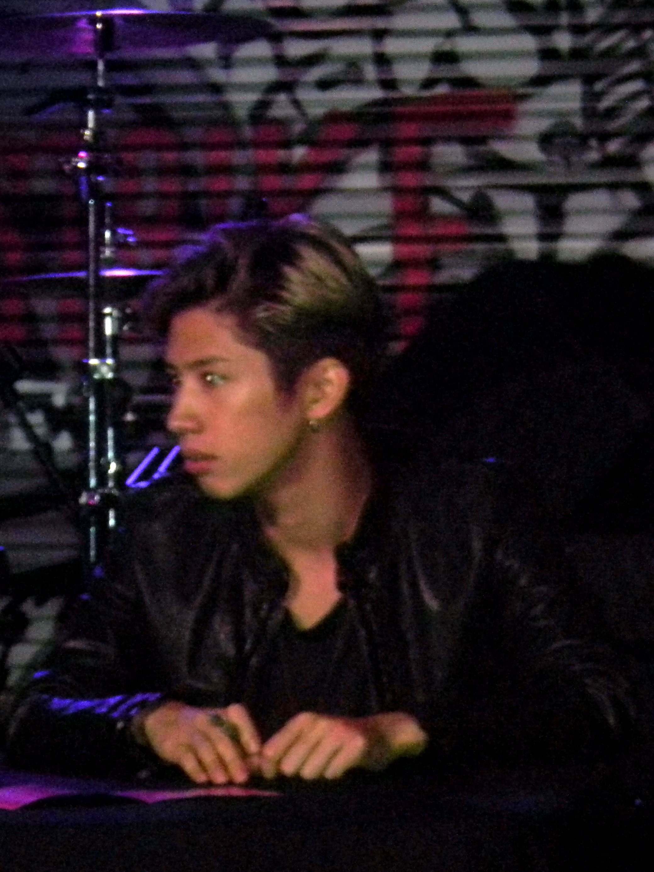 Japanese rock band member Taka of One Ok Rock during the 35xxxv autograph session after the band's mini acoustic live performance at Lucky Strike Live in Hollywood, California, on October 22, 2015.I originally uploaded the image at Flickr under my account DiverseMentality (this was my original username on both the English Wikipedia and Commons). I cropped the original image to focus on the subjects and made slight enhancements. There, it is also licensed under Creative Commons, Attribution and Share Alike.